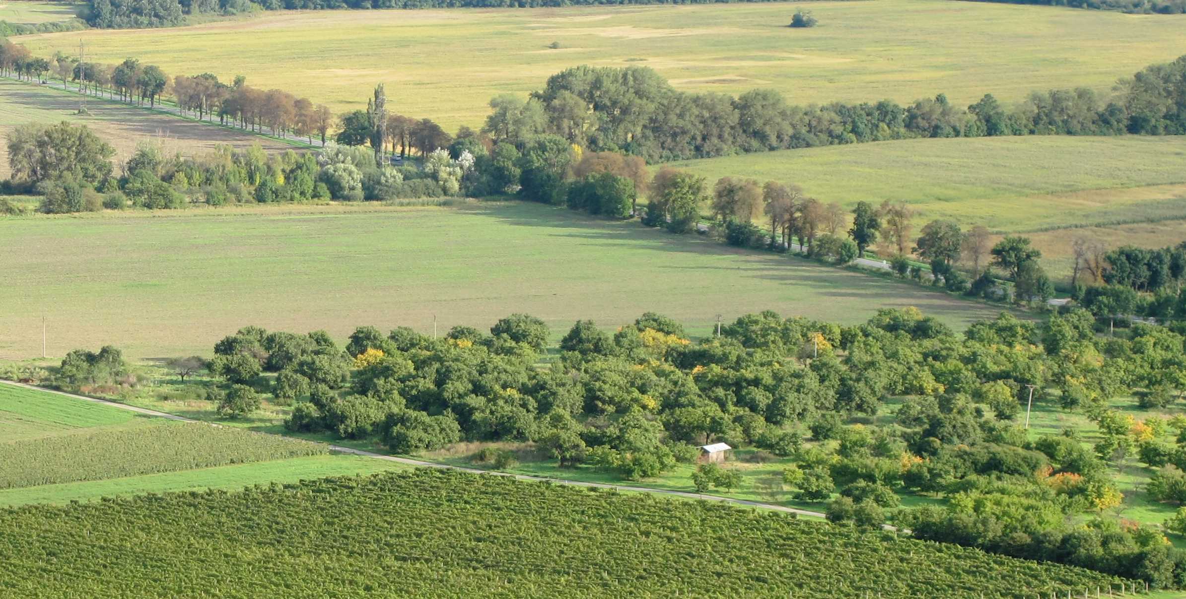 Mikulovská alej - group of famous trees (lime and Aesculus hippocastanum) along road between Mikulov and Sedlec (from Svatý kopeček Hill), Břeclav District